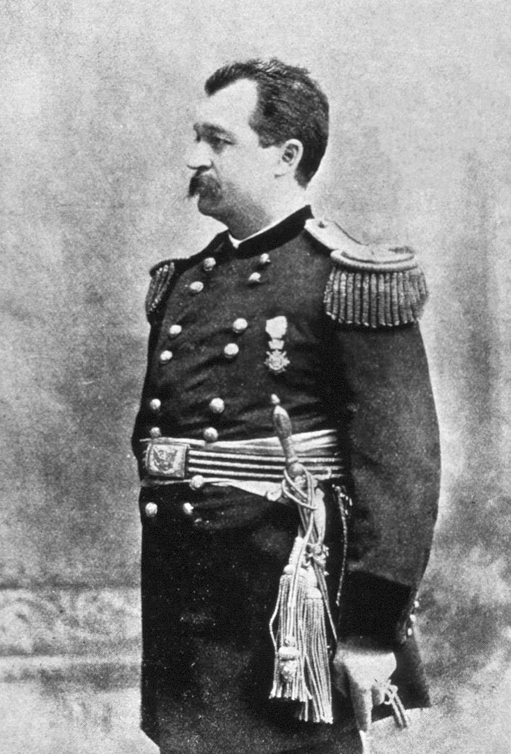 Nicholas Senn (1844-1908)